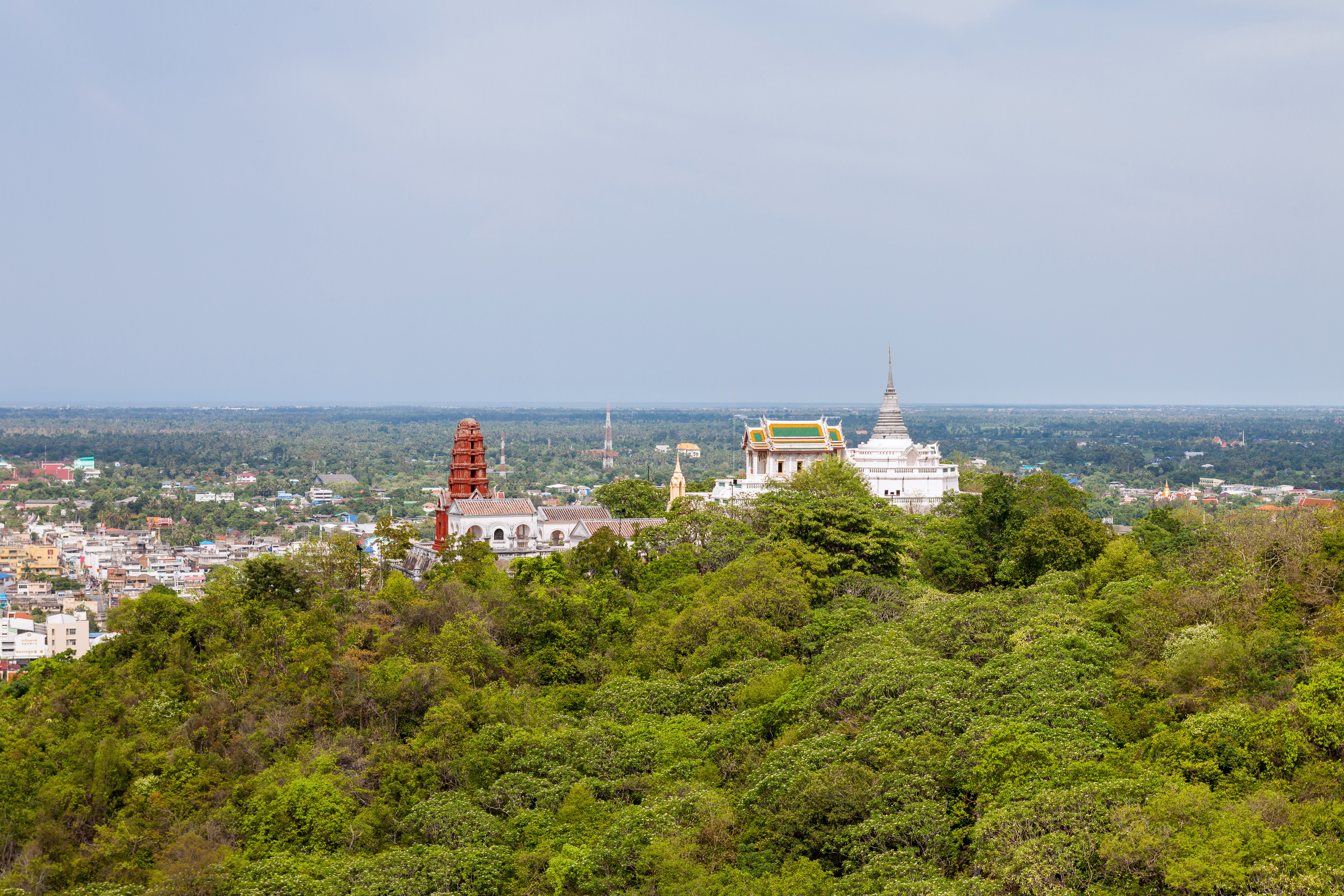 Wat Phra Kaeo Noi, Phra Nakhon Khiri historical park, Phetchaburi, central Thailand